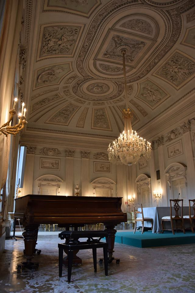 Ballroom (also known as Sala Bianca)